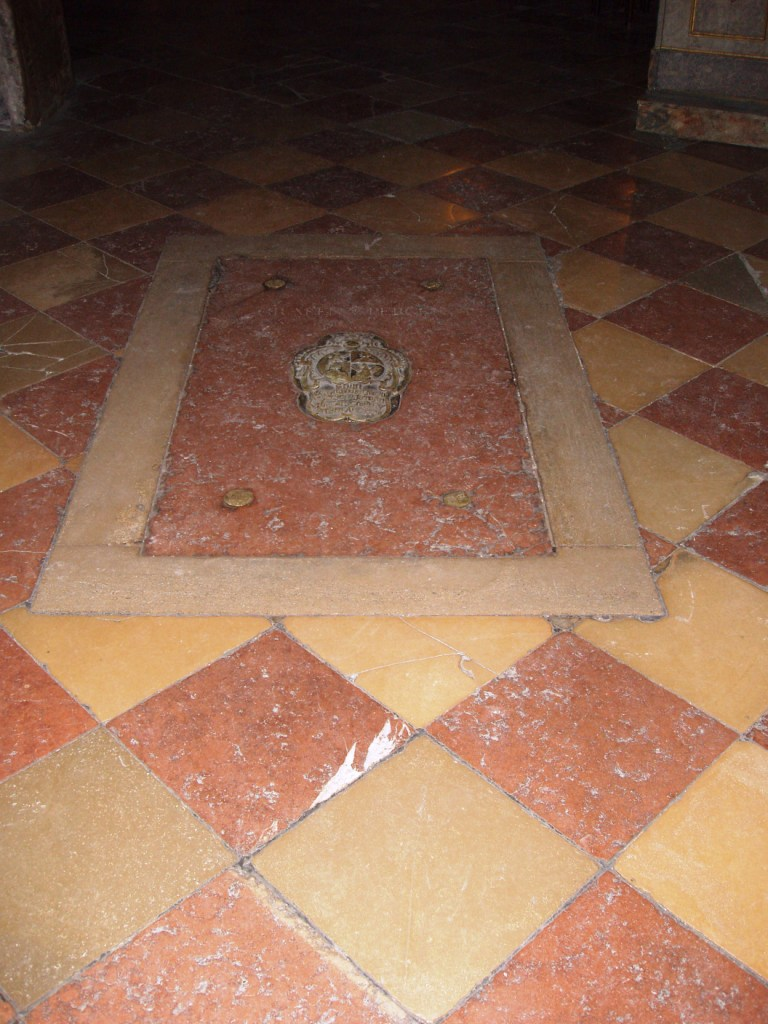 Seal to the Pergen-Suttinger tomb in the crypt of the Michaelerkirche in Vienna